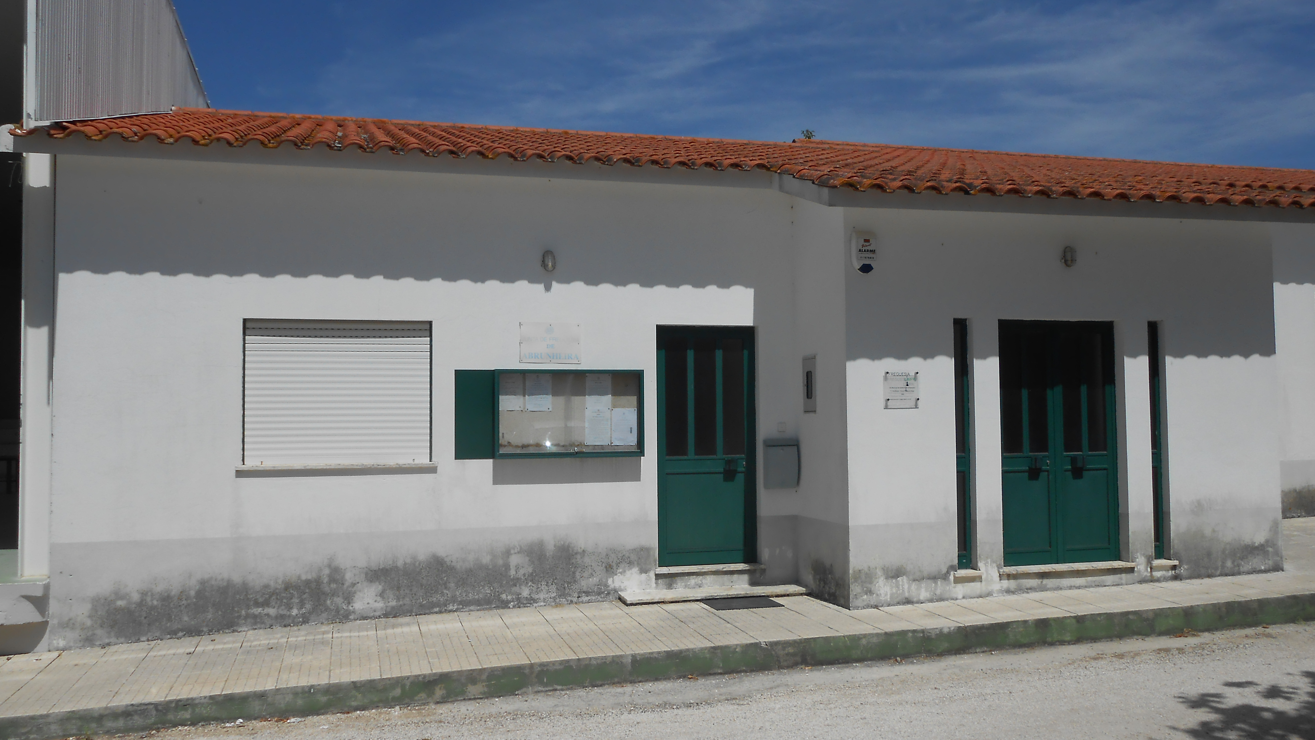 Building of the Abrunheira parish administration, municipality of Montemor-o-Velho, district of Coimbra, Portugal